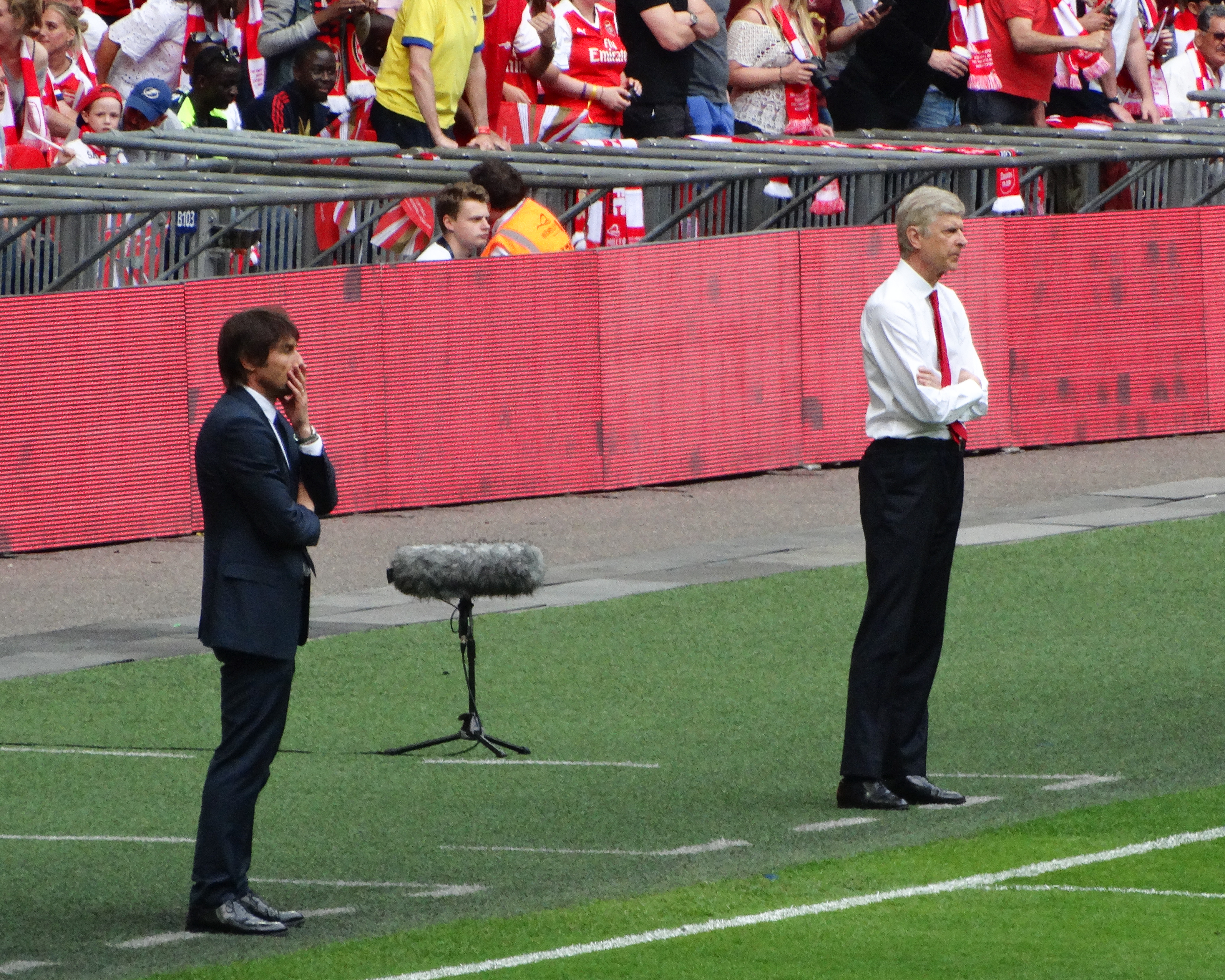 FA Cup Final 27.5.17